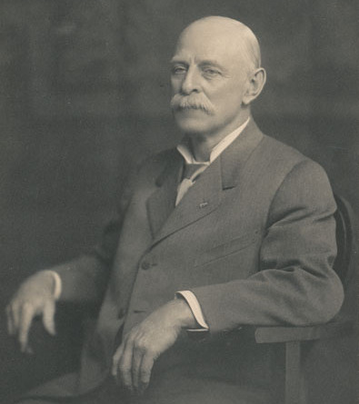 Photograph of Henry James Carr, ALA President from 1900-1901.